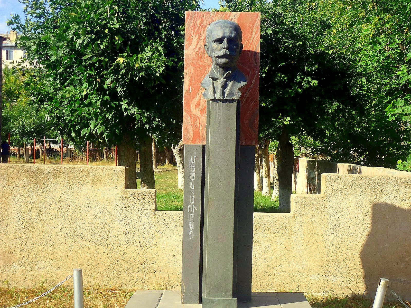 Statue of Metsn Murat (Hampartsum Boyajian), Nor Hachen, Armenia.